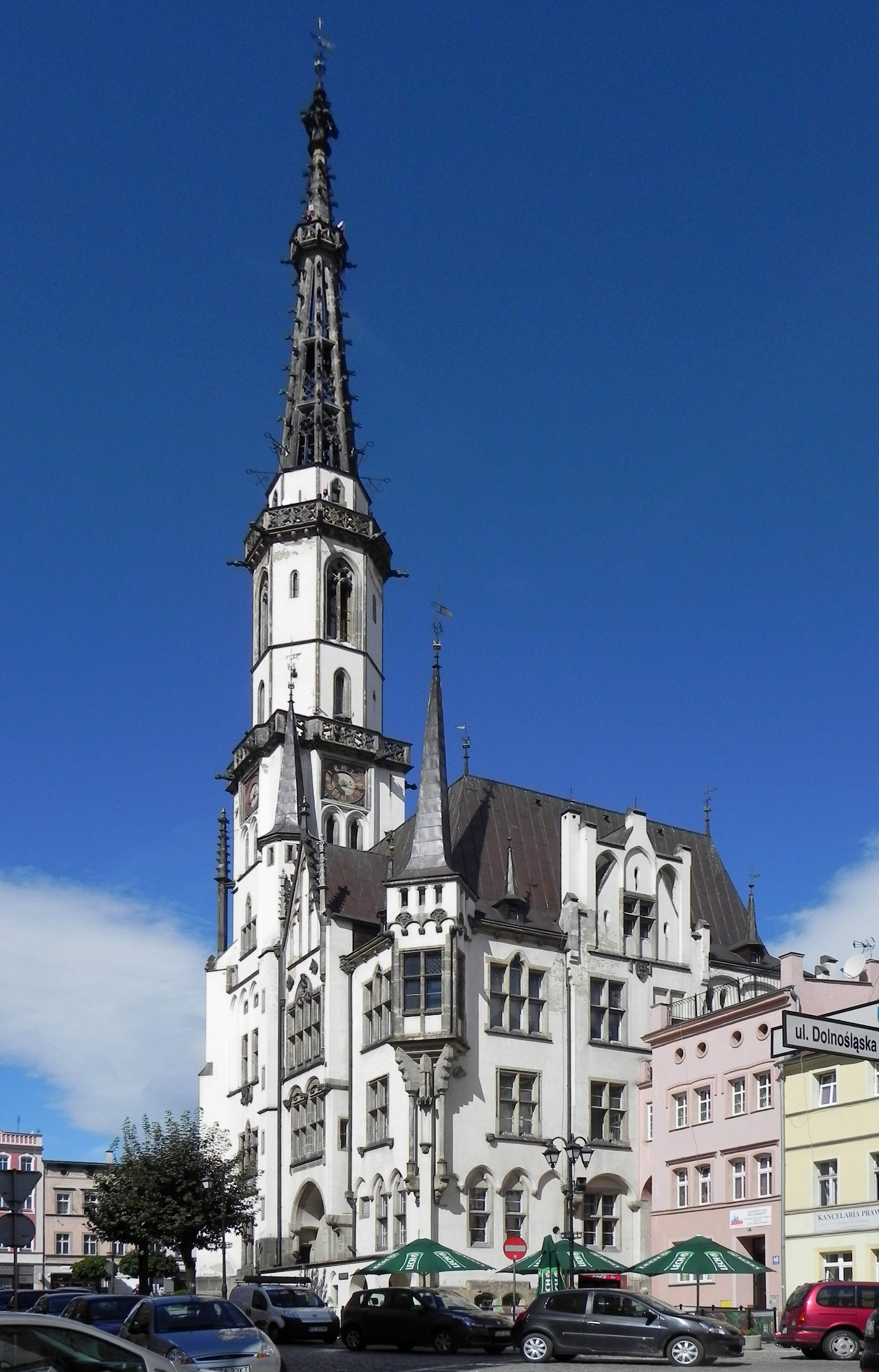 Town hall in Ząbkowice Śląskie